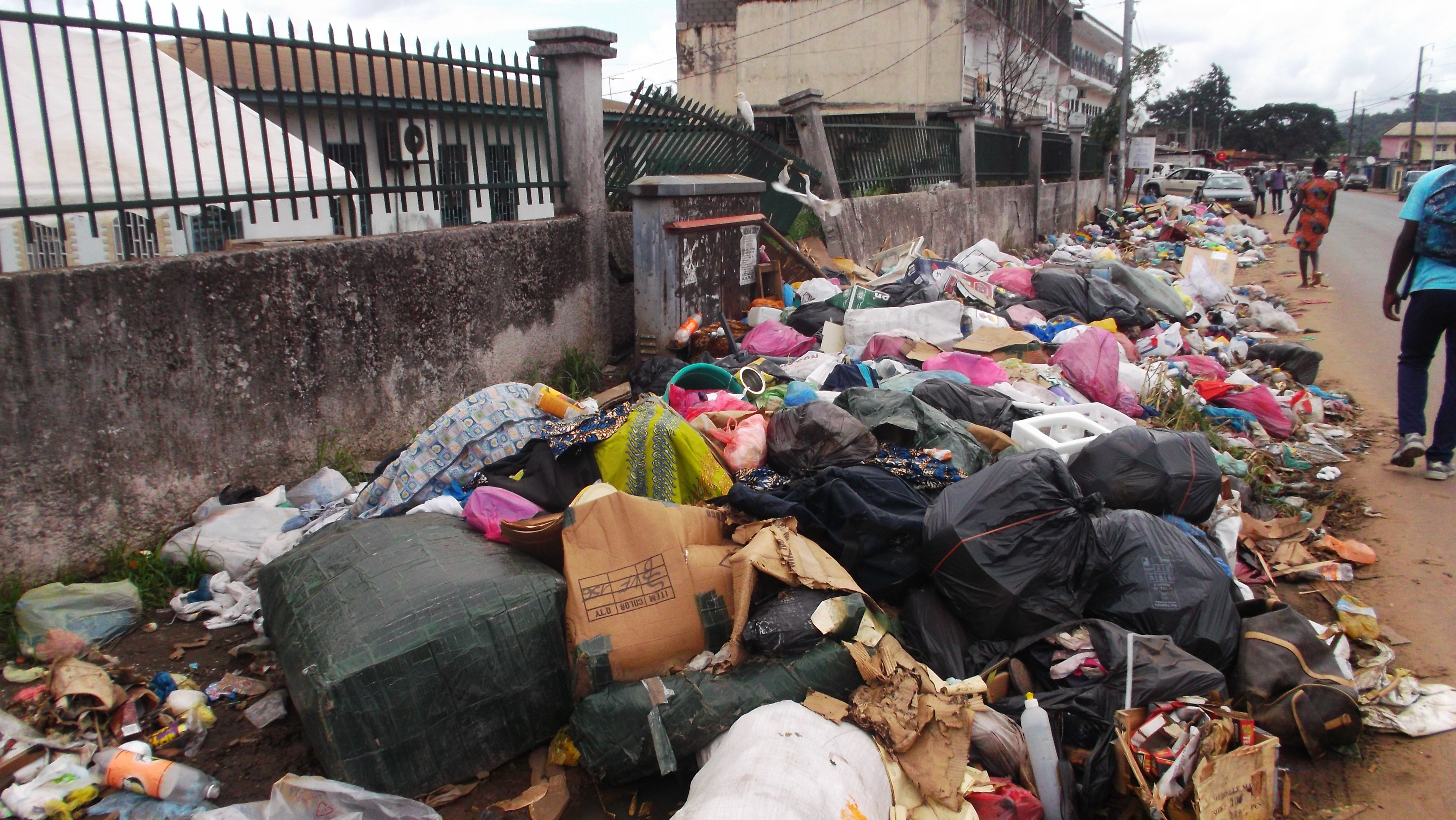 Waste in Libreville, Gabun